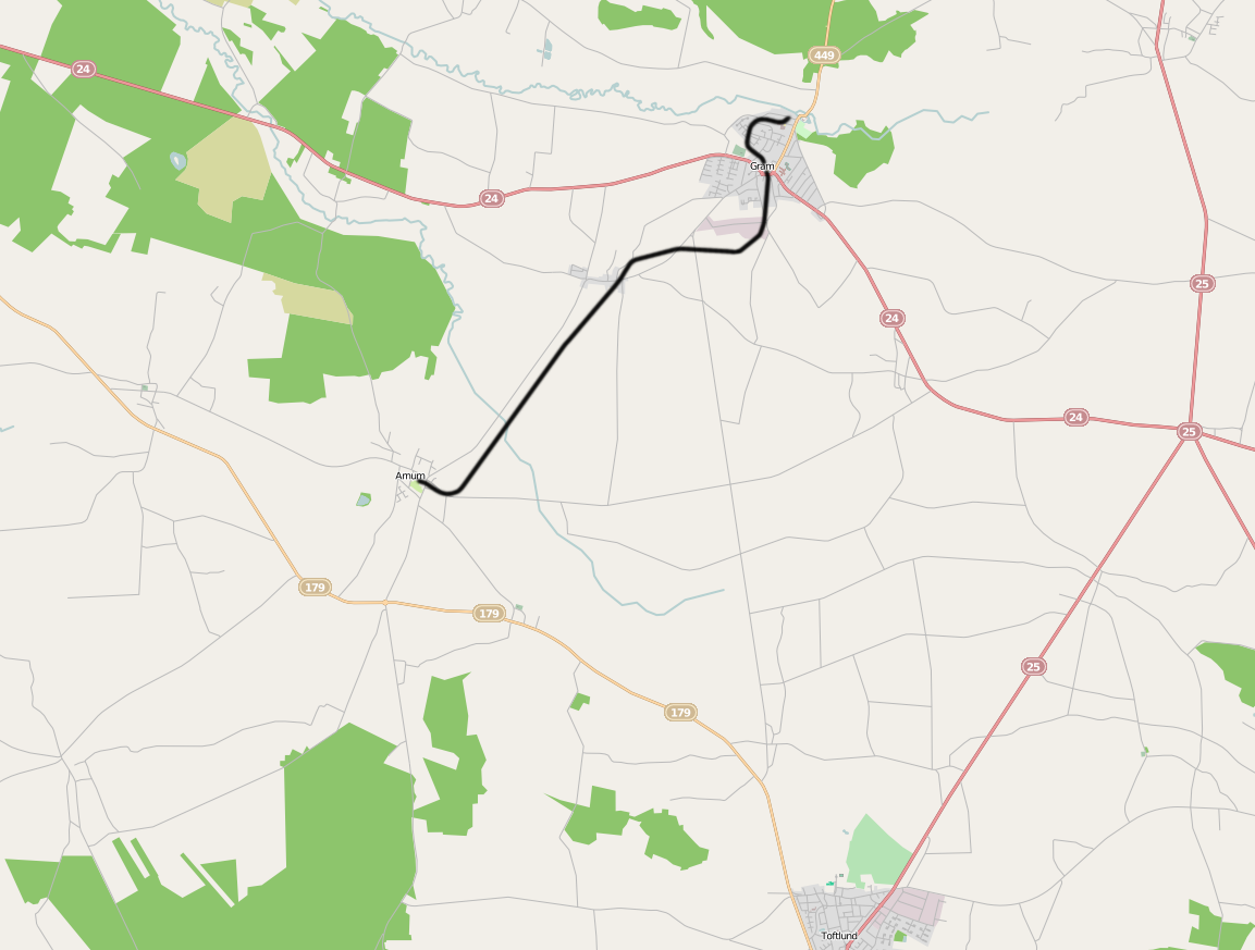 Railway line Gram - Arnum